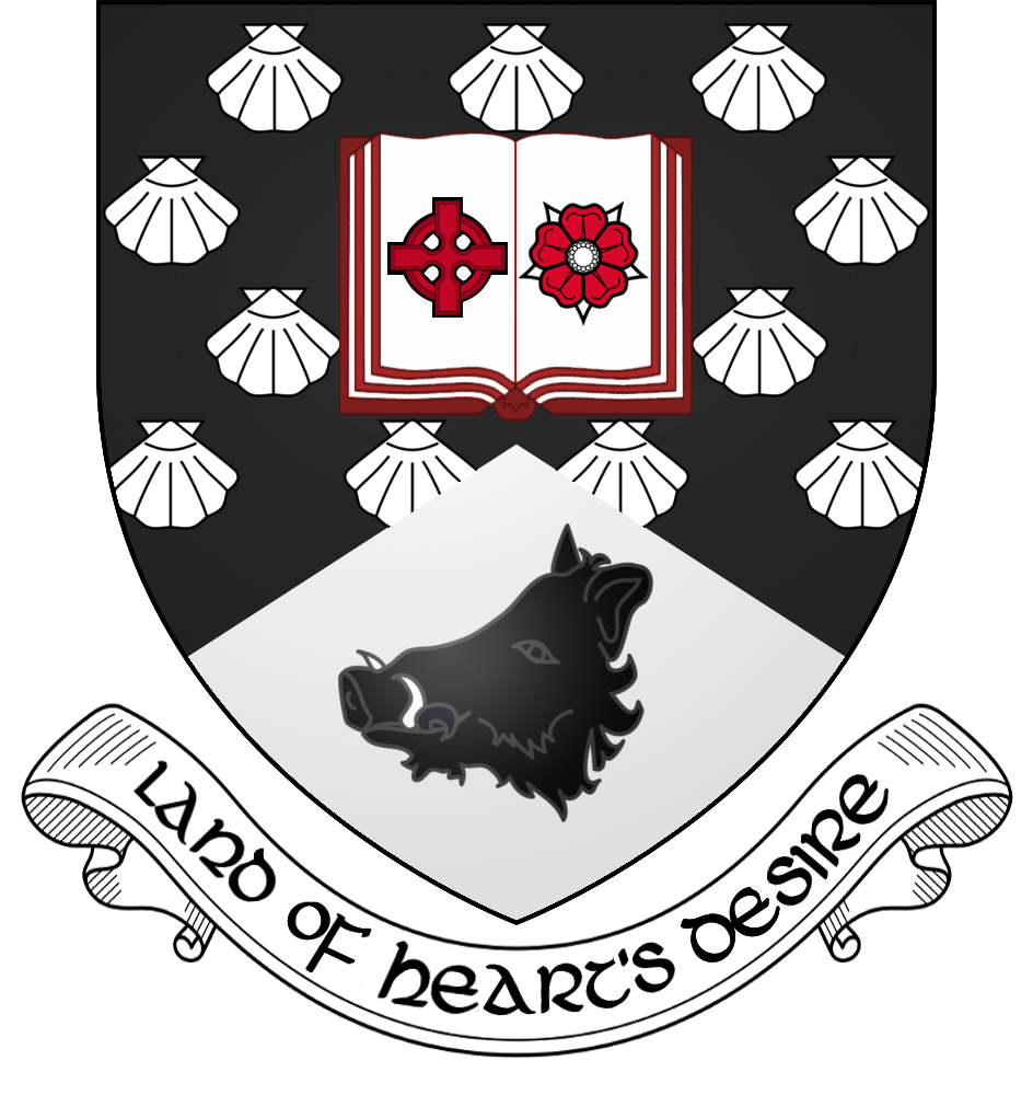 Digital recreation of The Coat of Arms of County Sligo in the Republic of Ireland, based on the following official description: "Sable semée of escallops argent an open book proper thereon in the dexter a Celtic cross and in the sinister a rose gules, on a point [pointed] in base of the second a boar's head erased of the first armed of the fourth with the motto: Land of Heart's Desire."